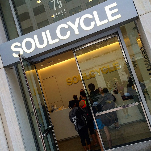 Nothing says old like trying out SoulCycle with a bunch of twentysomethings. It's part bikram, part spinning, part hip hop danceathon. Tip: newbies stick to the back row to avoid humiliation